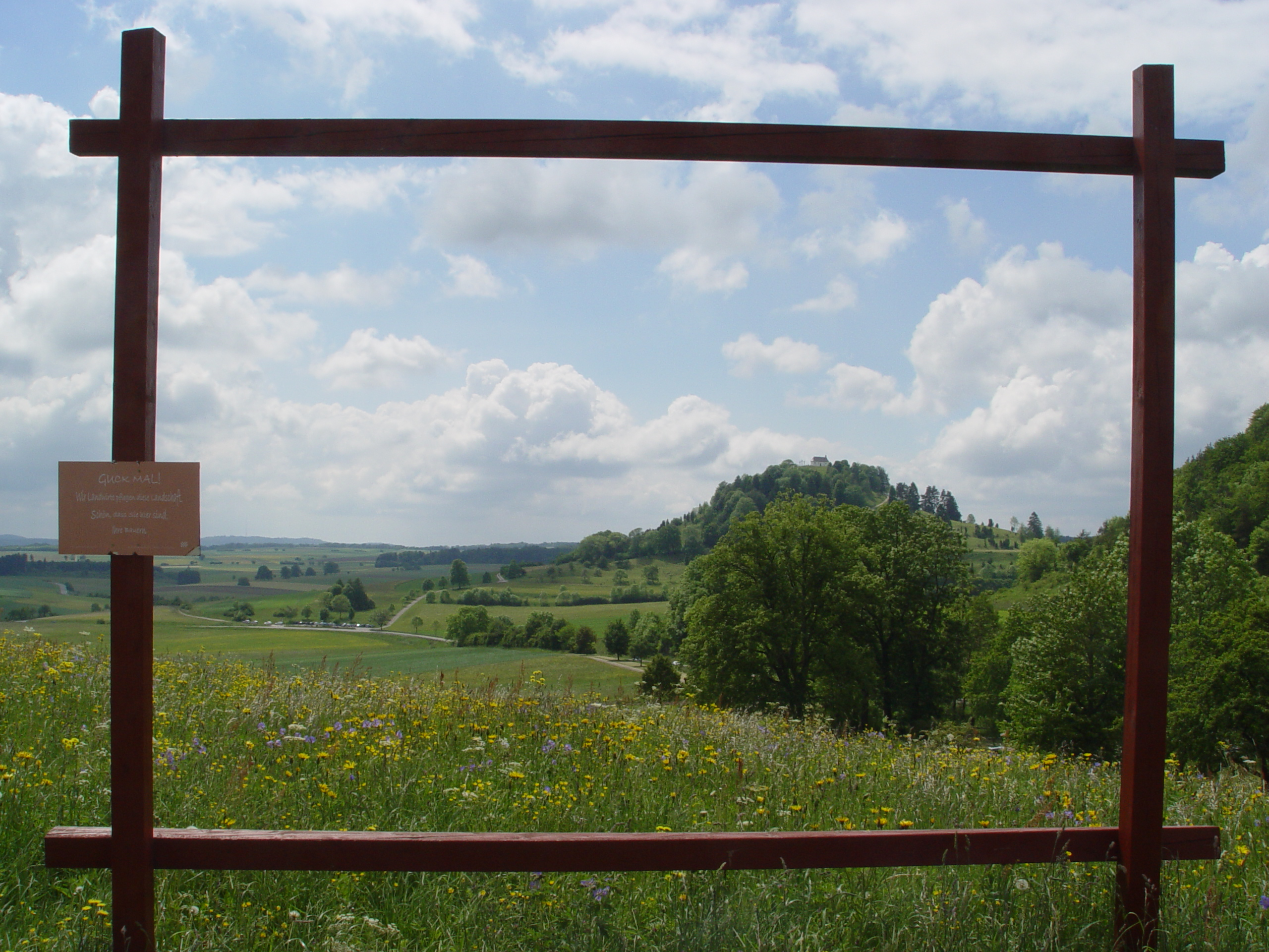 Kornbühl, Salmendingen, viewed through Guck mal